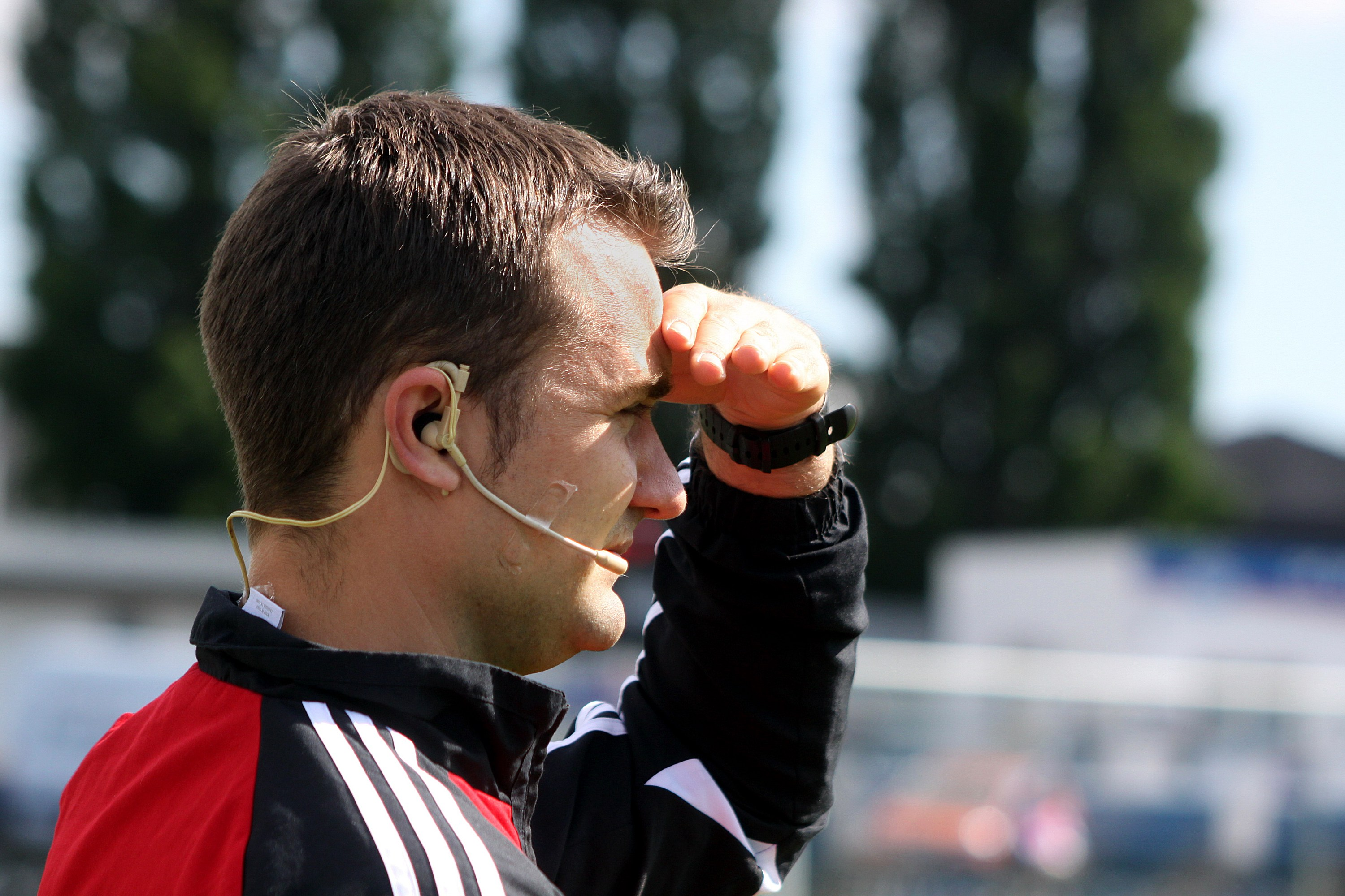 Assistant referee Andreas Kollegger